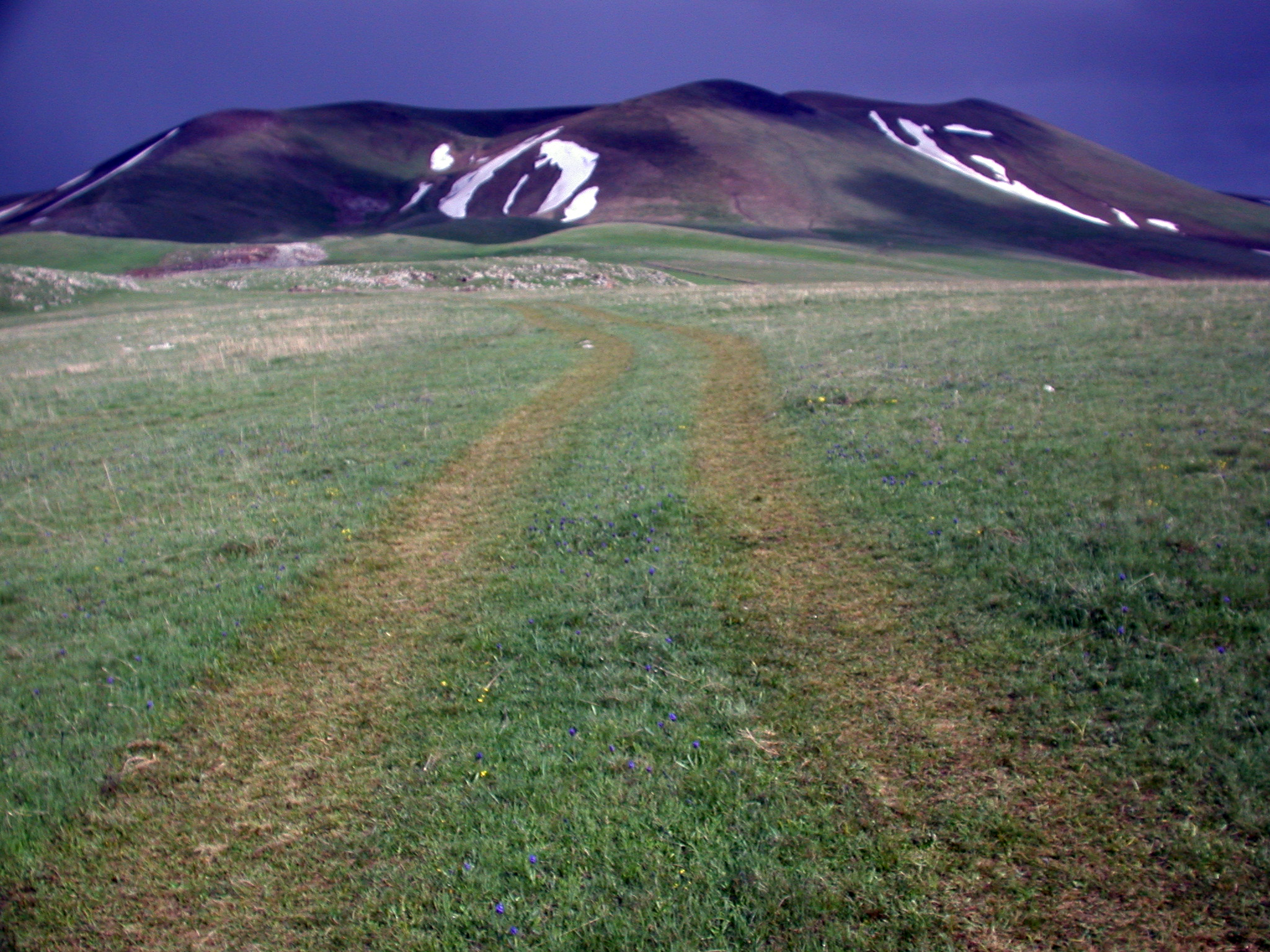 Sevsar volcano of the Vardenis Mountains